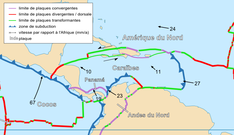 Map of the Caribbean Plate